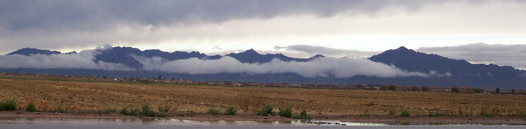 The Sierra Estrella mountain range viewed from Laveen, Arizona.